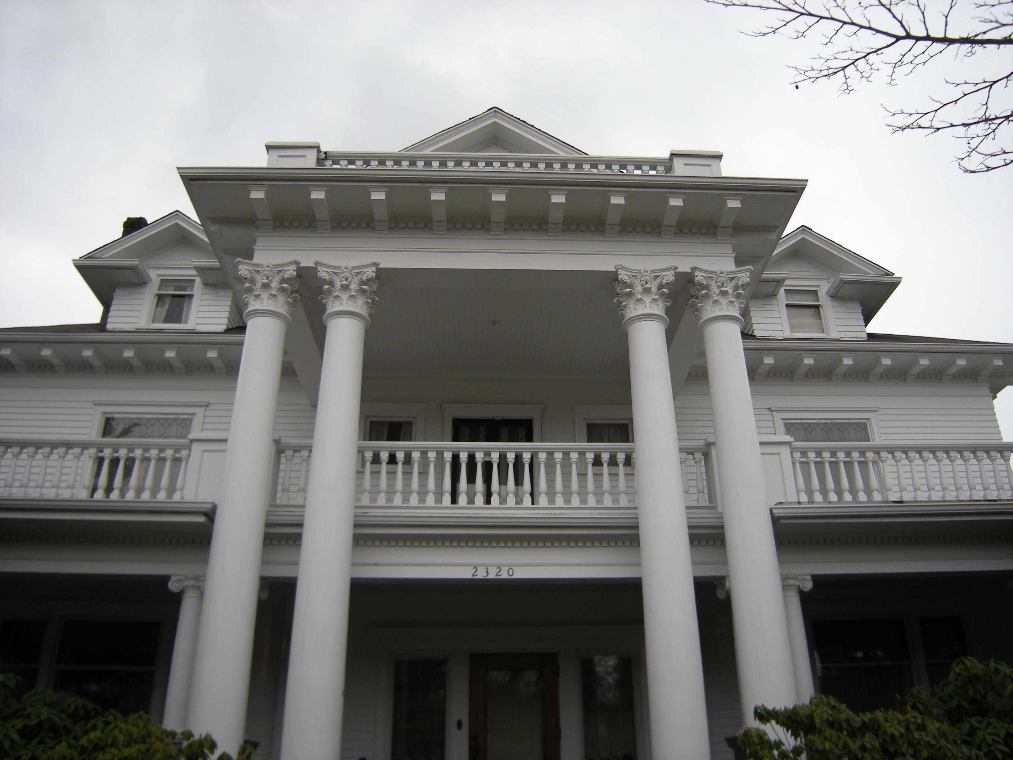 Roland Hartley House, 2320 Rucker Avenue, Bayside District, Everett, Washington, USA. The building, now part of the Providence Cranial Clinic, is listed on the National Register of Historic Places.